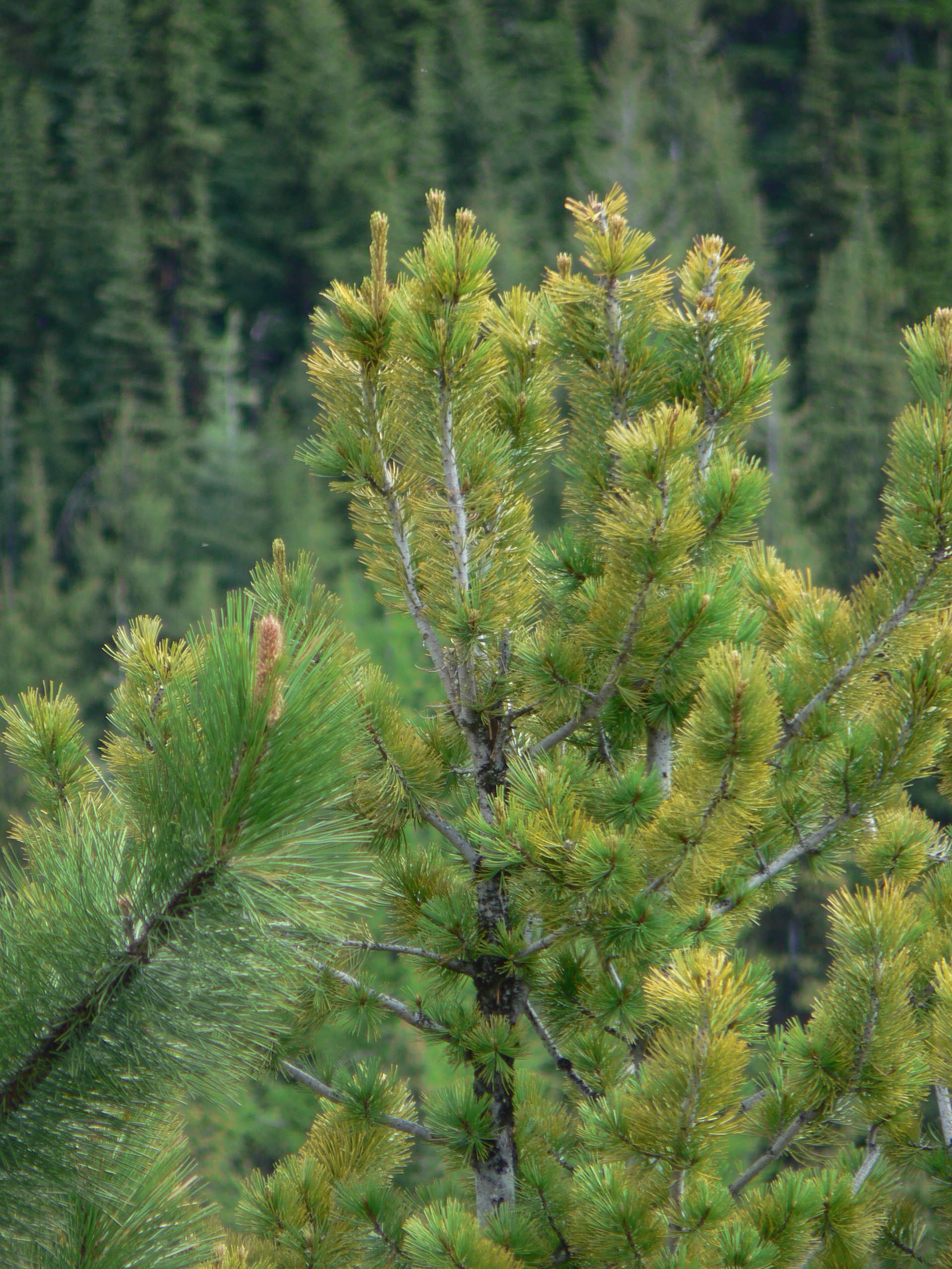 Western White PinePinus ponderosa subsp. ponderosa (left)